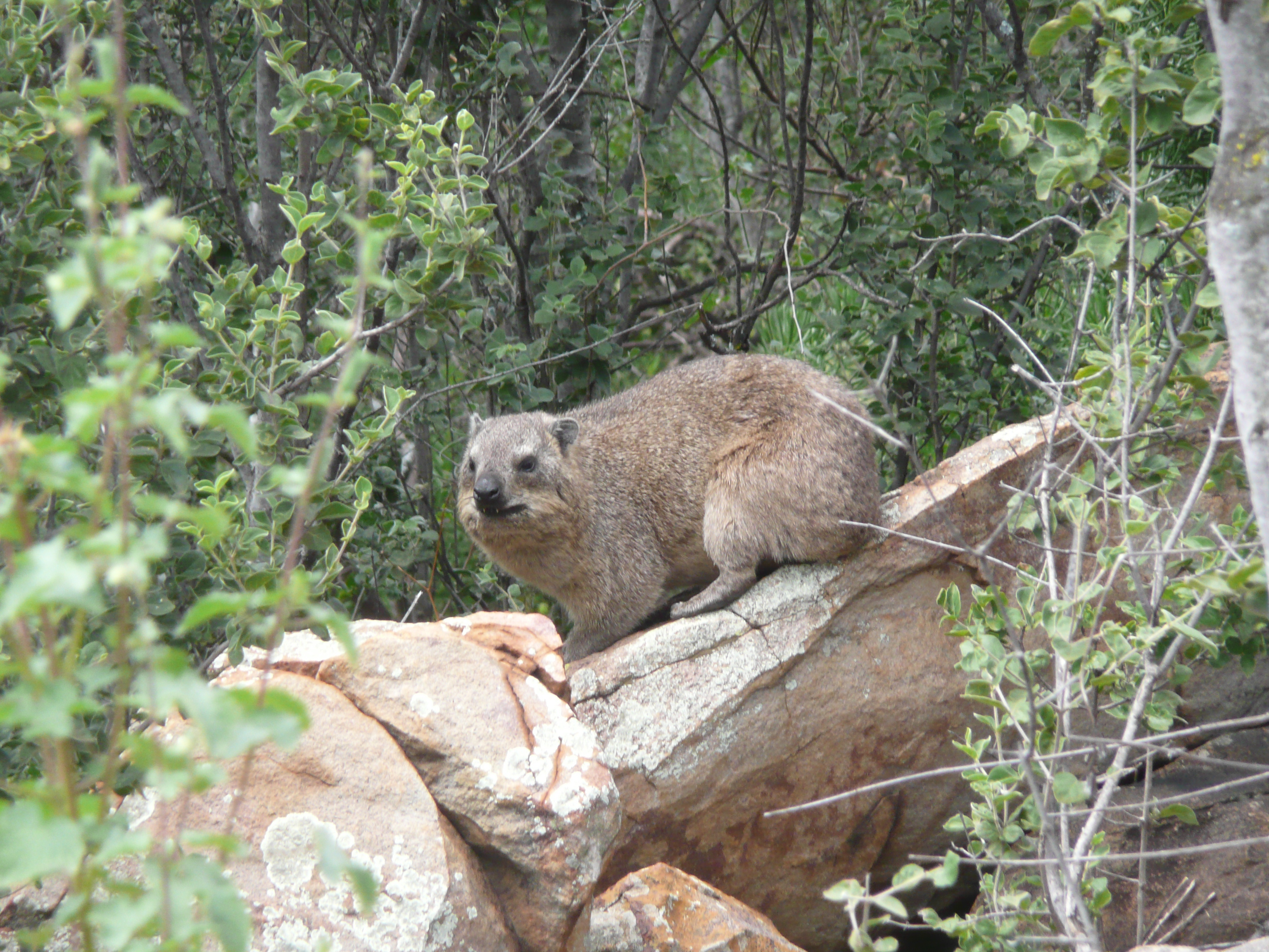 Dassie in the botanical garden of Pretoria (South Africa)